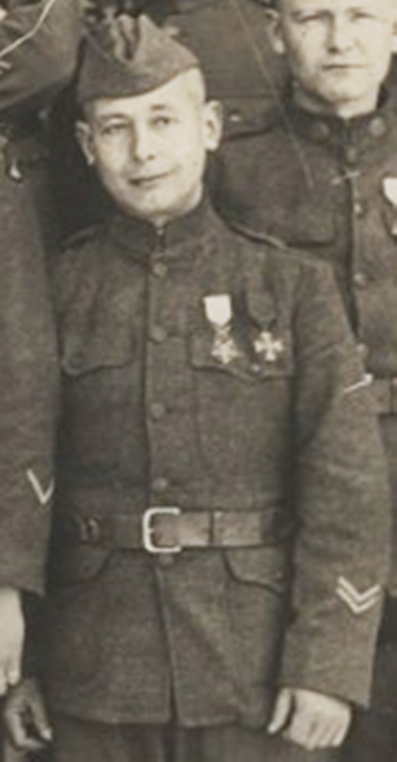 WWI Medal of Honor recipient Frank J. Bart. He wears the Medal of Honor and the French Croix de guerre.